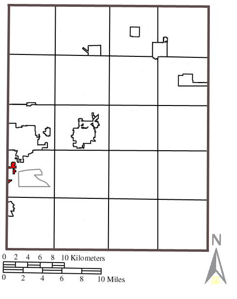 Map of Portage County, Ohio with the city of Tallmadge highlighted.